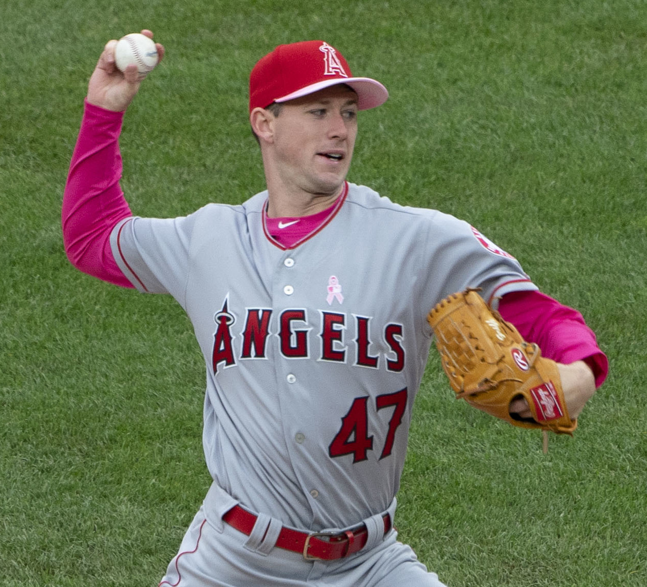 Angels at Orioles 5/12/19